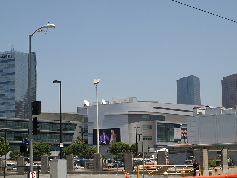 The Staples Center photographed during the Michael Jackson memorial service. View from West 12th Street at South Flower Street, looking north. This photograph was taken with an Olympus E-510 DSLR camera